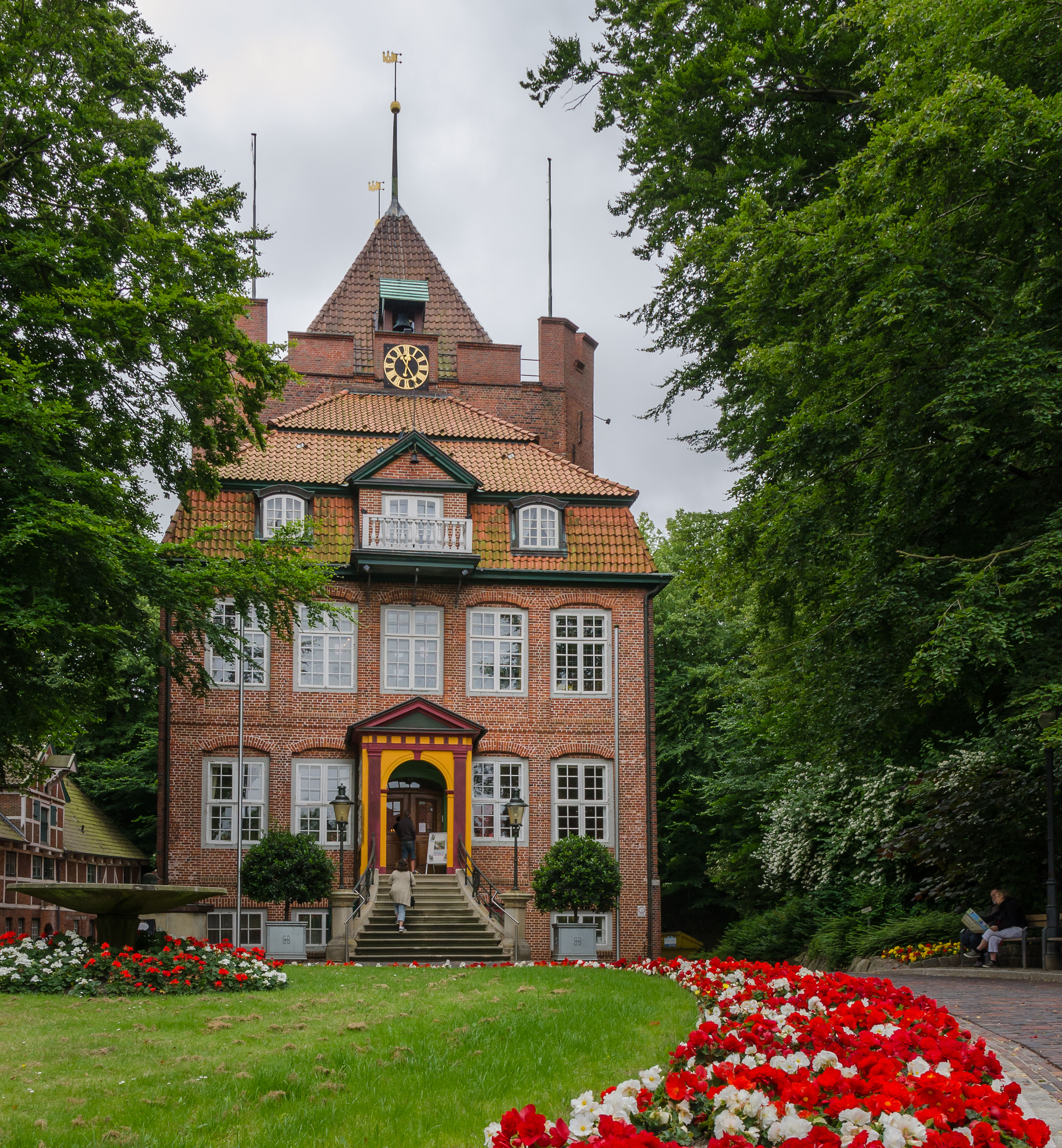 Ritzebüttel Castle in Cuxhaven, north side